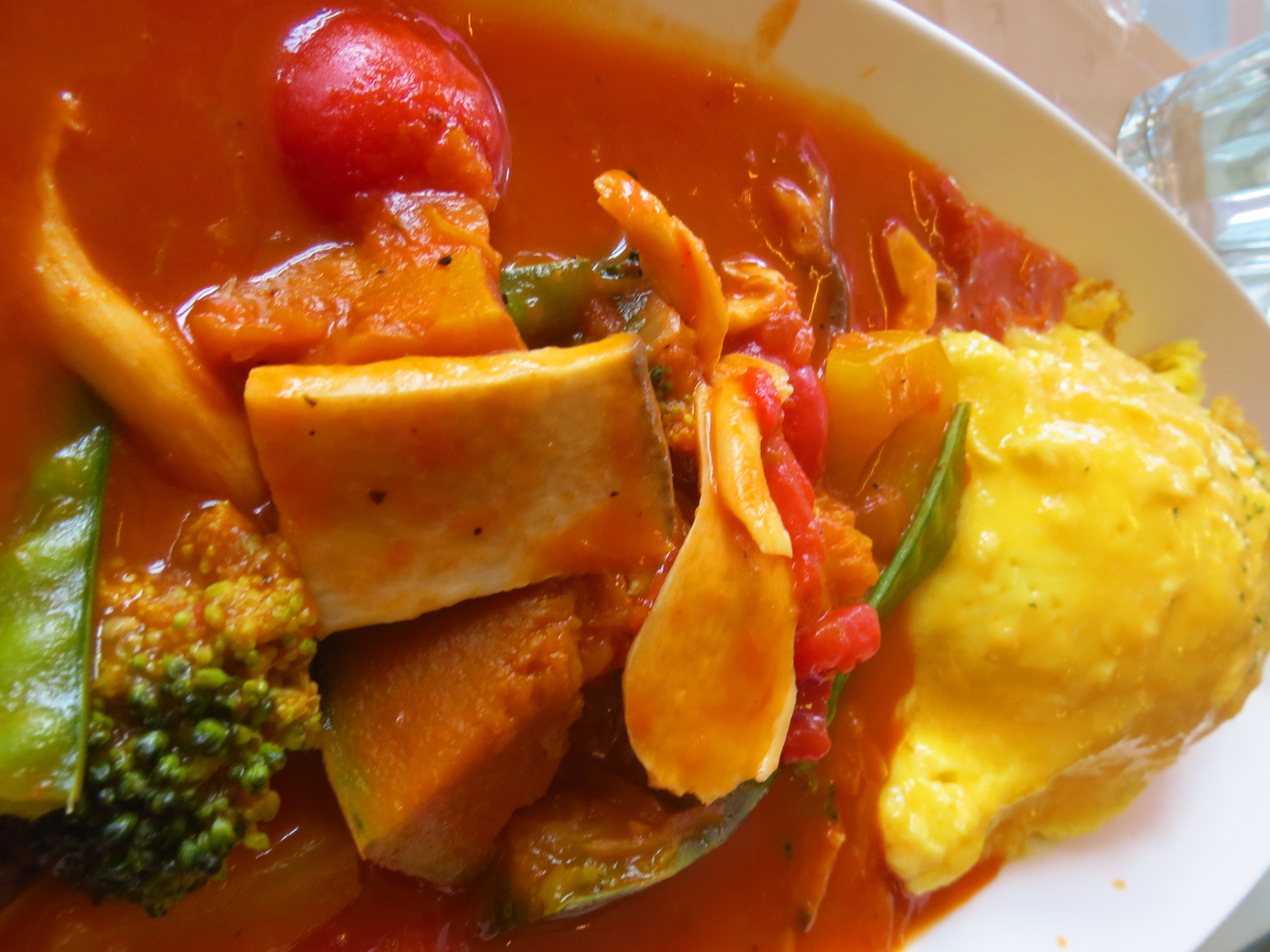 A lacto-ovo vegetarian Omurice